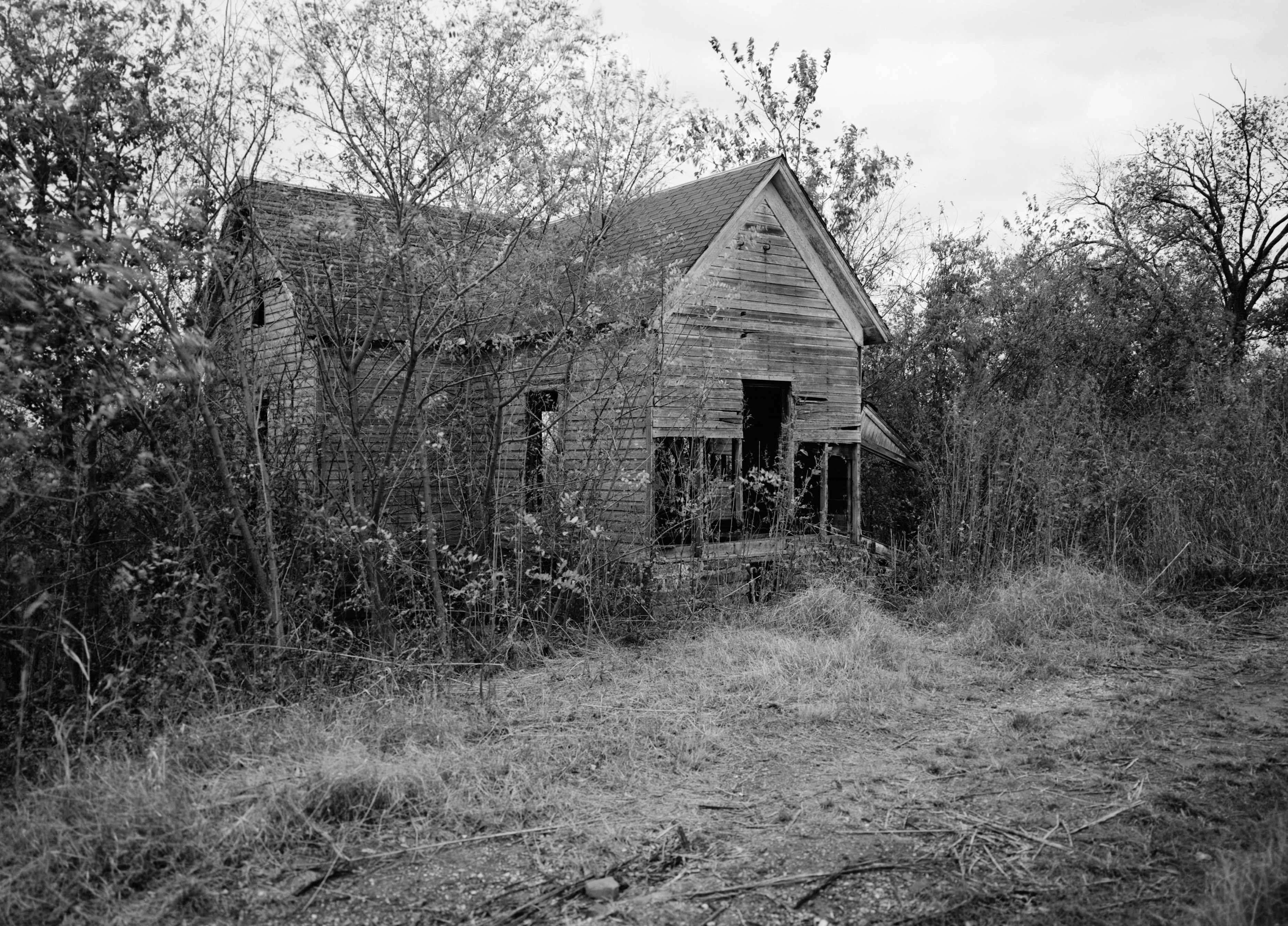 Woody Guthrie's birthplace, Okfuskee County, OK